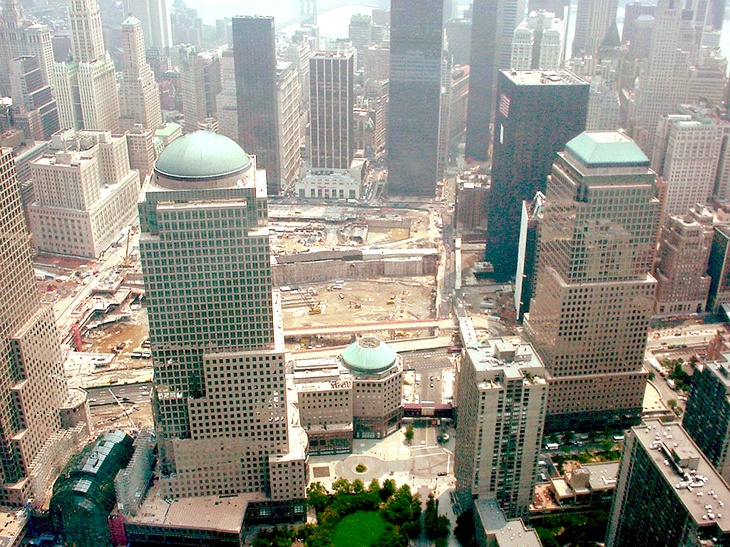 The site of New York City's World Trade Center in August 2002.